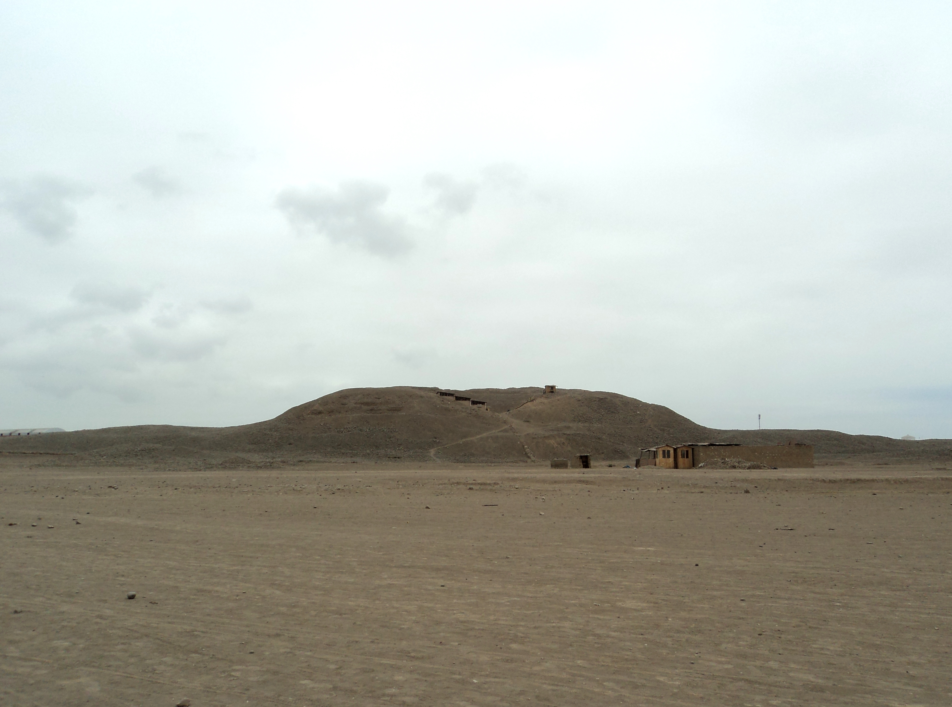 The Huaca Garagay reaches about 30 meters in height, higher than almost all the buildings in its context.